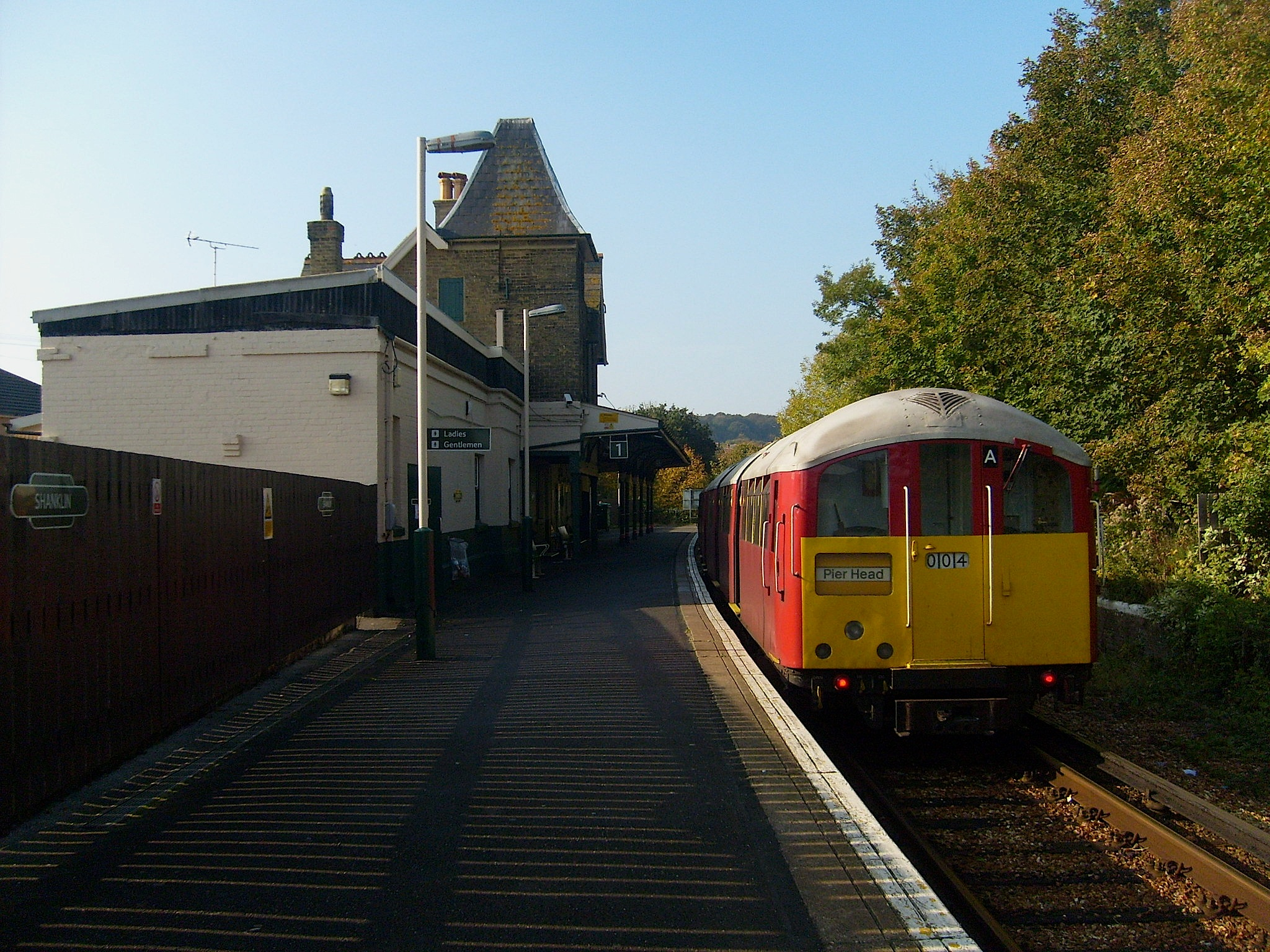 Island Line Class 483 No. 004 in London Underground livery at Shanklin, this time, in the sun!